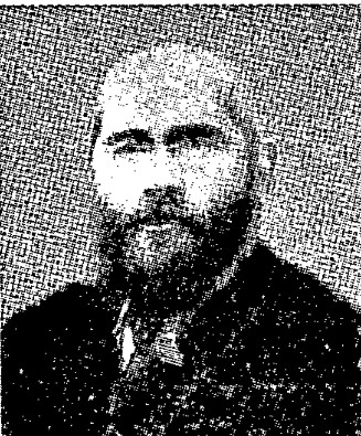 Lejzor Sirkis